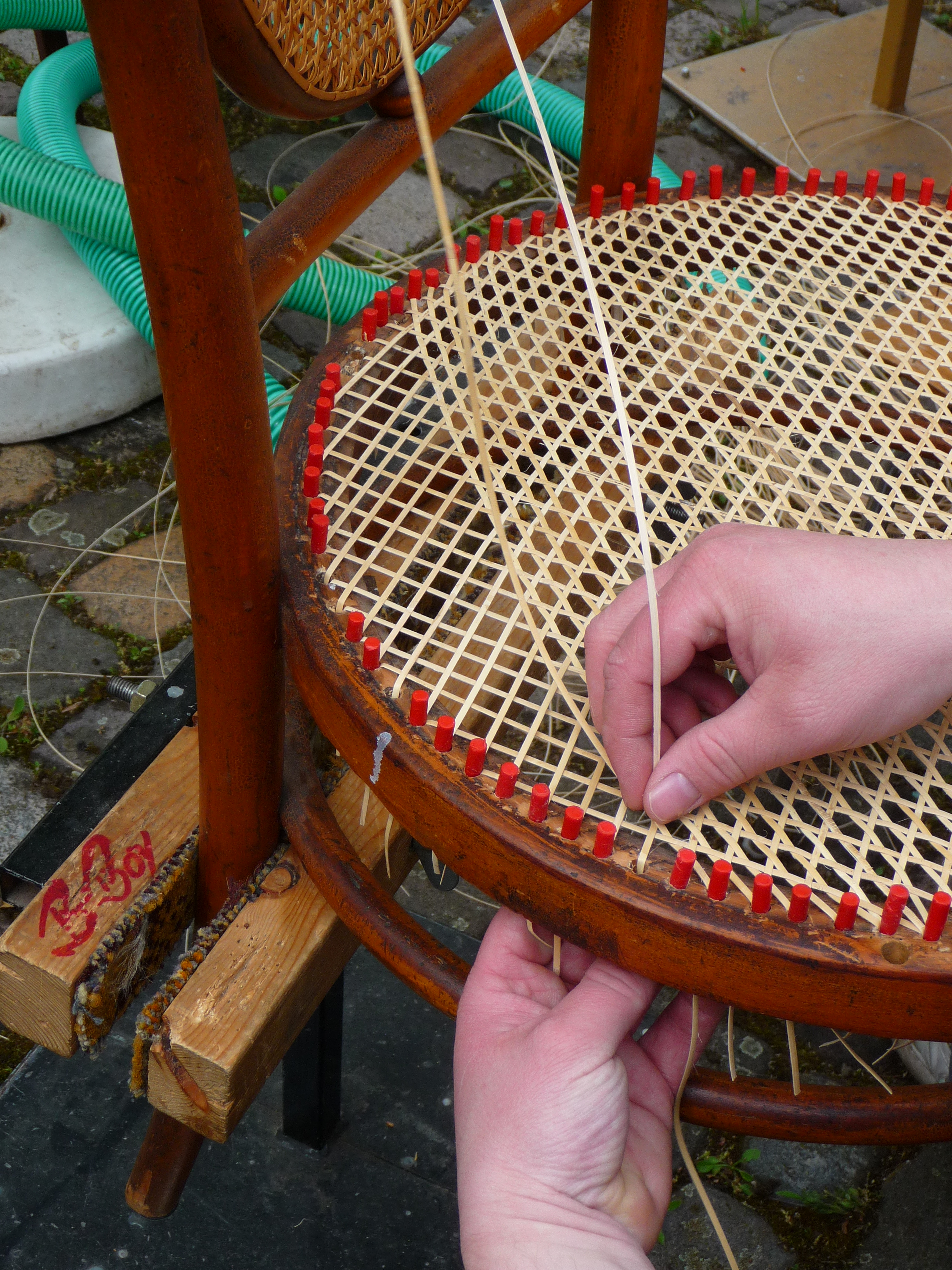 Chair caner at work. Cane bottomed bentwood chair.